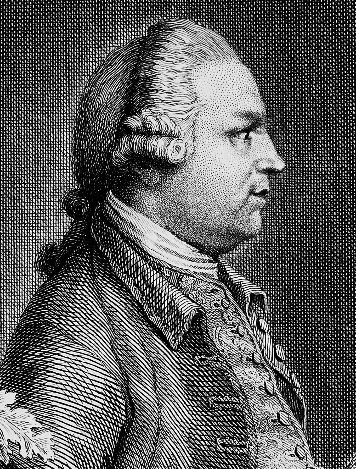 John Miller (1715–c.1792), erroneously and widely portrayed as Philip Miller, for whom John Miller worked. A flipped version of this image appears in the frontispiece to J. Miller's 1777 Illustration of the Sexual System of Linnaeus. Source: Michael T. Stieber, Gavin D. R. Bridson (1983). "Maillet's 1787 Portrait of Philip Miller (1691-1771) Is That of John Miller (1715-1790)". Taxon 32 (2): 272. and Allen Paterson (1986). "Philip Miller: A Portrait". Garden History 14: 40-41.